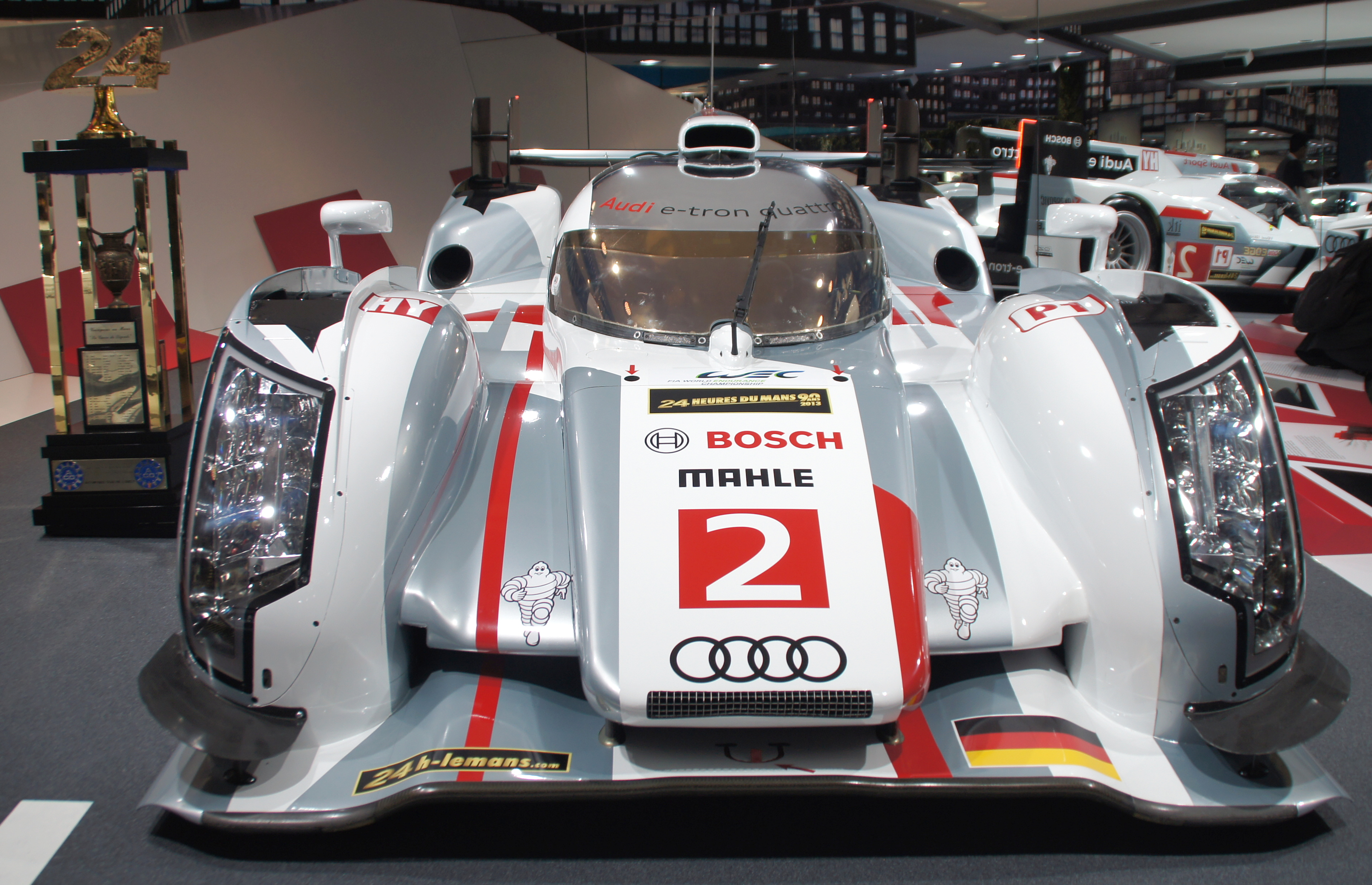 Audi R18 e-tron quattro TDI 3.7L V6 Hybrid – winning car, 24h Le Mans 2013 – No. 2 driven by Allan McNish (GB), Tom Kristensen (DK), Loïc Duval (F) – winner's trophy